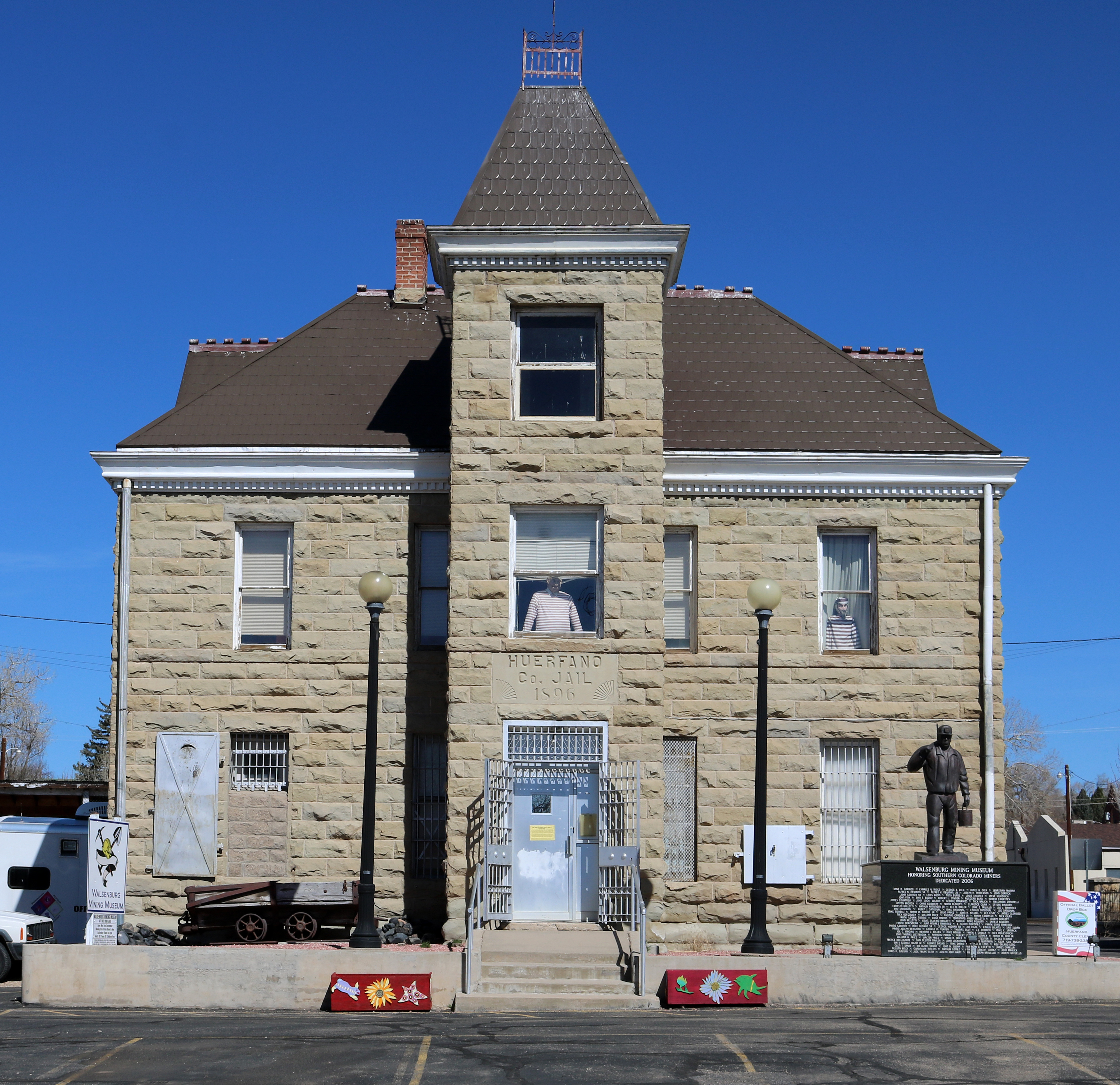 The former Huerfano County Jail, located at 112 West 5th Street in Walsenburg, Colorado. The building, built in 1896, now functions as the Walsenburg Mining Museum. The property, jointly with the Huerfano County Courthouse, is listed on the National Register of Historic Places.